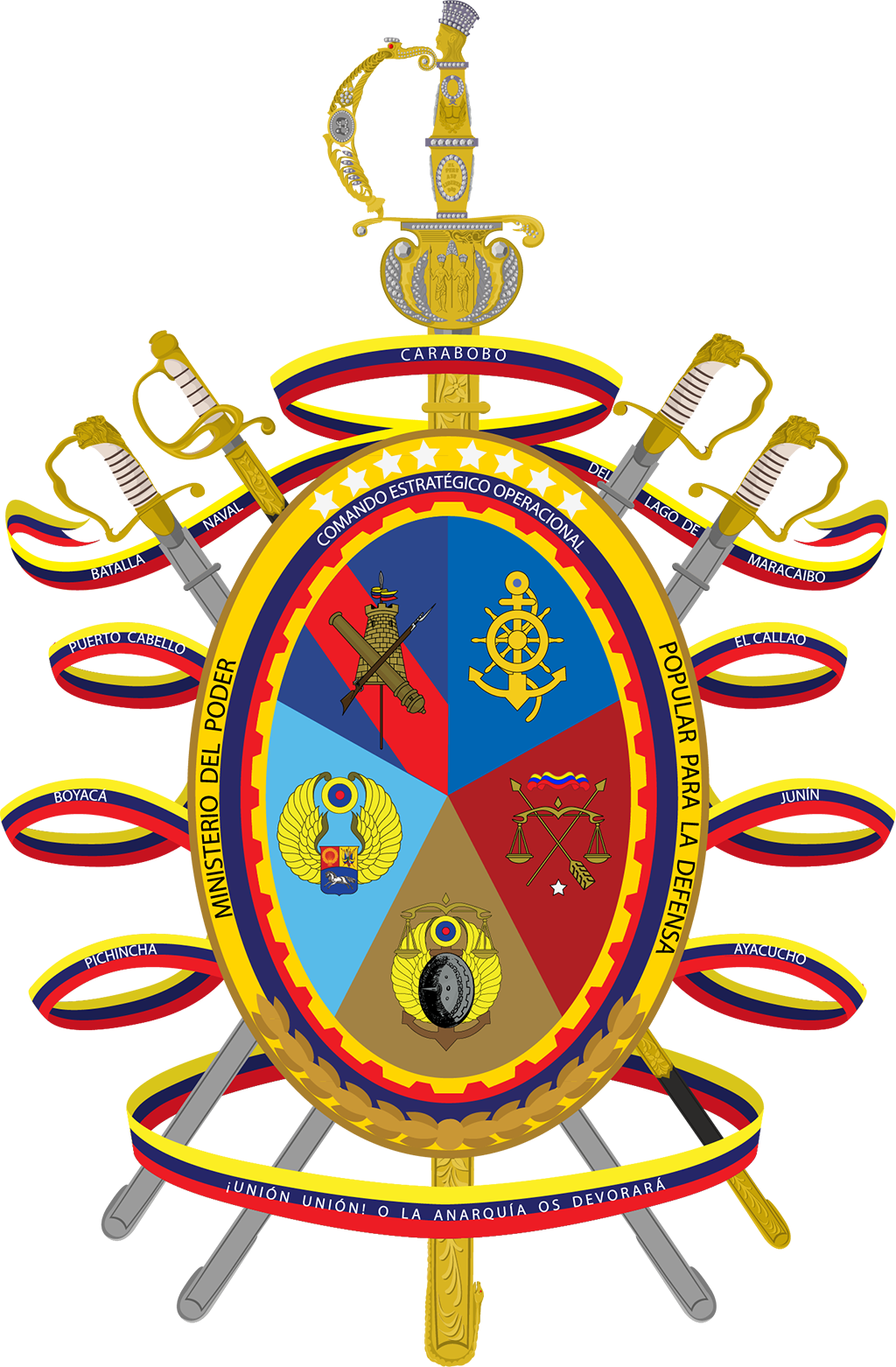 Seal of the Venezuelan Ministry of Defense